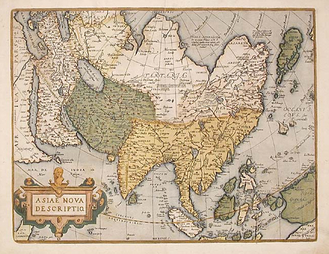 Abraham Ortelius: Asiae Nova Descriptio, 1595 ("A new description of Asia"). Hand-coloured copper engraving, with period hand colouring. Published by Ortelius, Antwerpen.